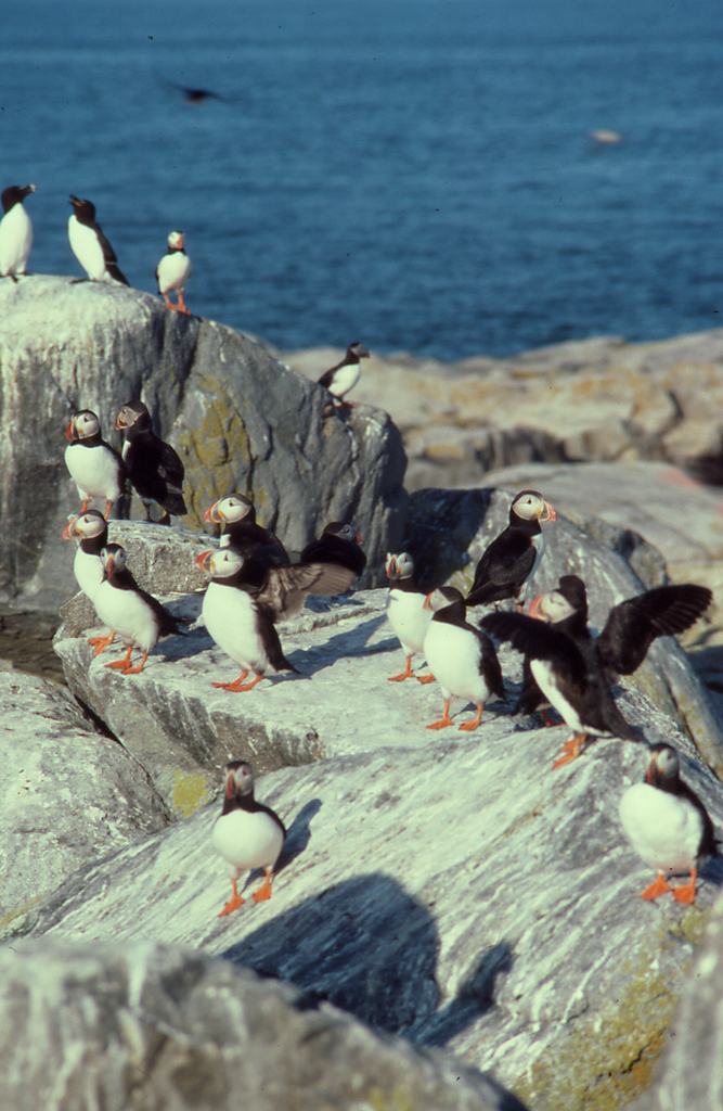 Maine Coastal Islands National Wildlife Refuge/USFWS